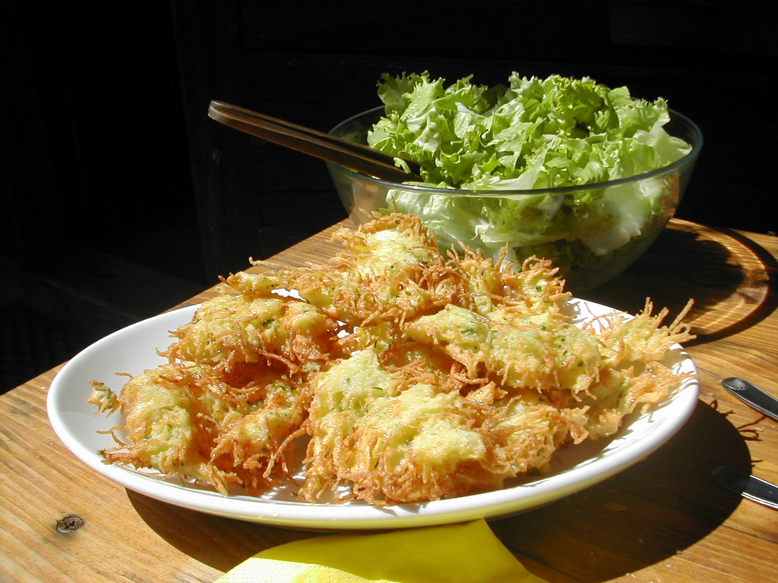 Potato-Beignet in Upper Savoy